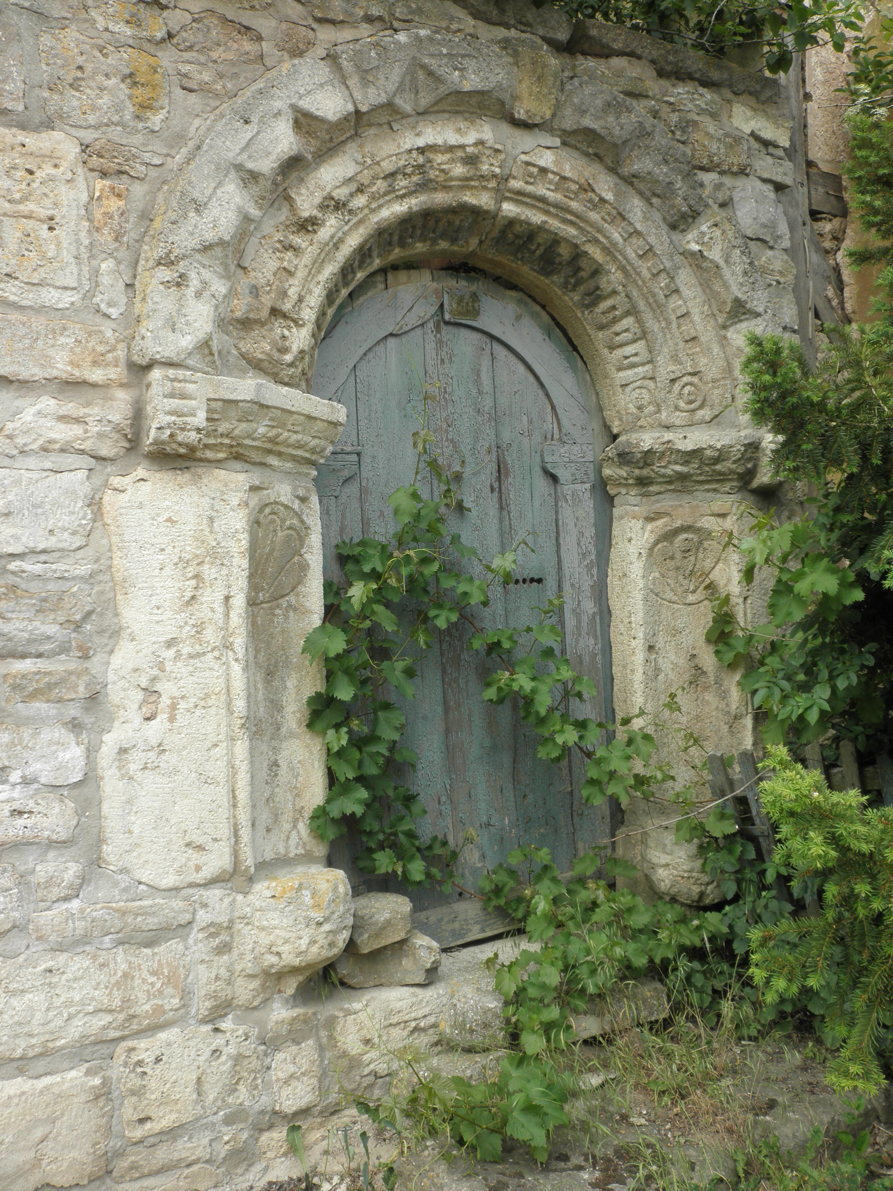 Gate in Holzengel (Großenehrich) in Thuringia